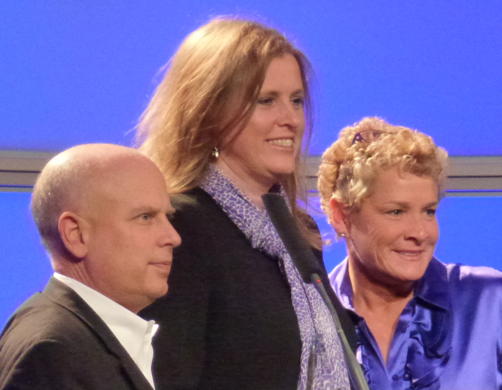 Jennifer Hoover, Head Coach High Point University, accepting the 2012 Maggie Dixon Rookie coach of the year award at the WBCA Awards ceremony in Denver, Colorado. On her right is the Russel representative, on her left is Beth Bass CEO of the WBCA